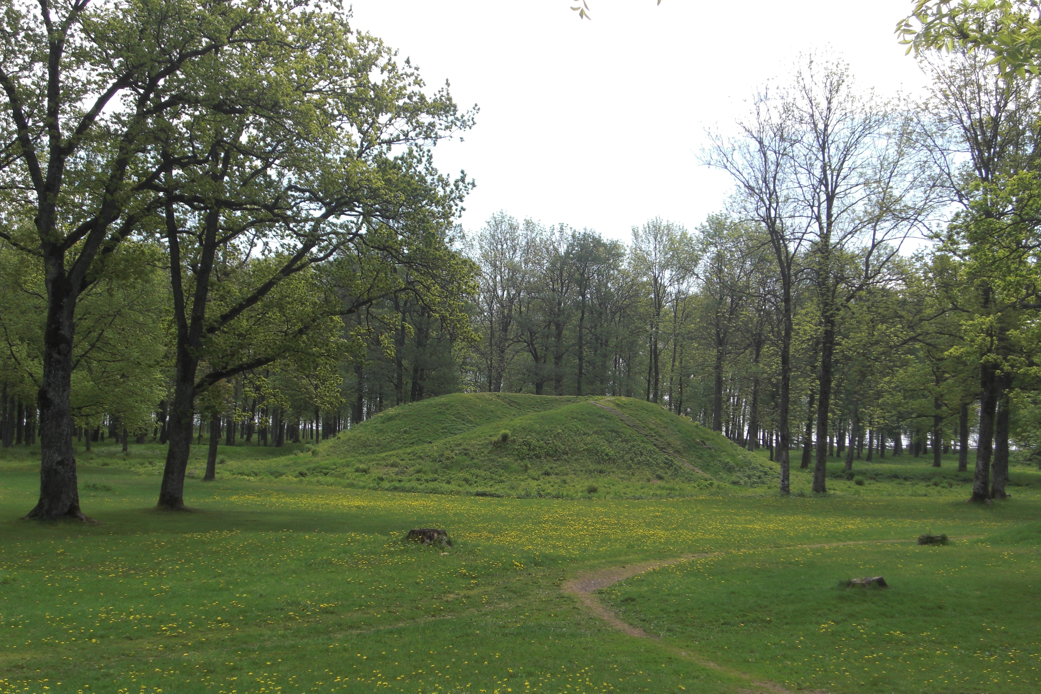 Borreparken, grave mound, Horten county in Vestfold, Norway